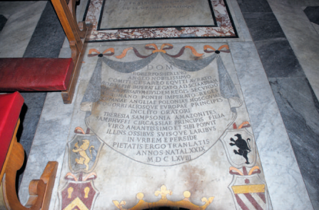 The funerary slab for Robert Shirley and Teresa Sampsonia in S. Maria della Scala, Rome. The inscription reads: To God, the Best and Greatest. For Robert Sherley, most noble Englishman, Count Palatine, Knight of the Golden Spur, Emperor Rudolph II's envoy to Shah Abbas, the King of Persia, (and) the representative of the same King to the Popes of Rome, to Emperors, to the Kings of Spain, England, Poland, Muscovy, and the Mogul Empire, distinguished ambassador to other European princes. Theresia Sampsonia, native of the land of the Amazons, daughter of Samphuffus, Prince of Circassia, set up [this monument] for her most beloved husband and for herself, as a resting place for his bones—brought to Rome from Persia for dutiful devotion’s sake—and for her own, aged seventy-nine. 1668.